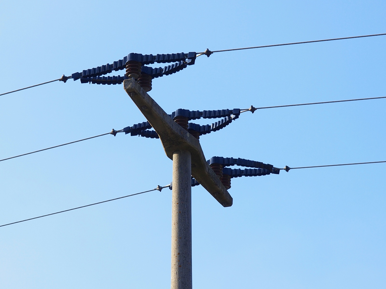 Power line with insulated conductors to protect birds from electric shock